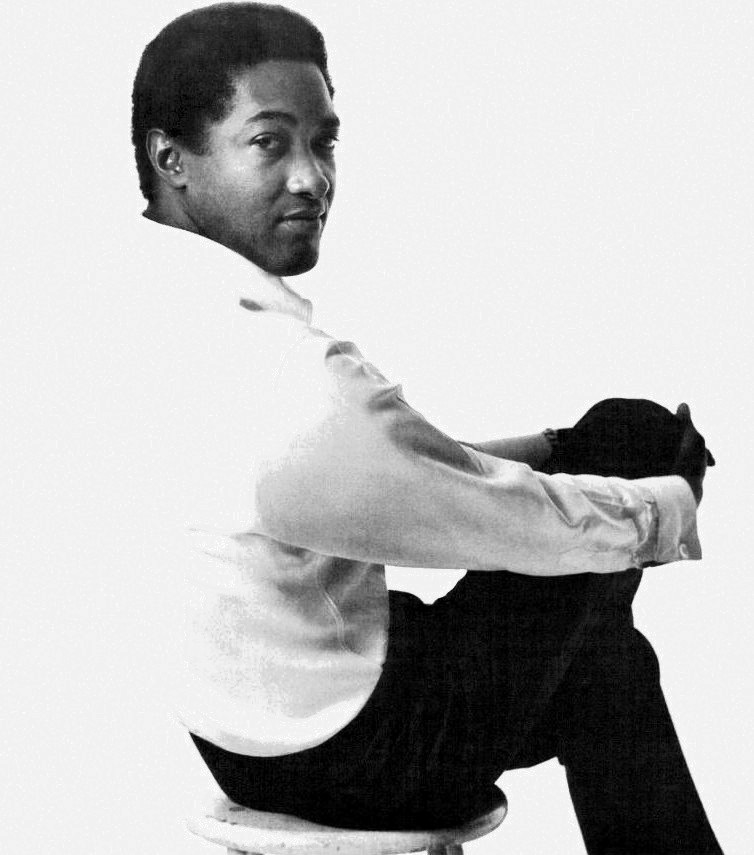 Photo of singer Sam Cooke.